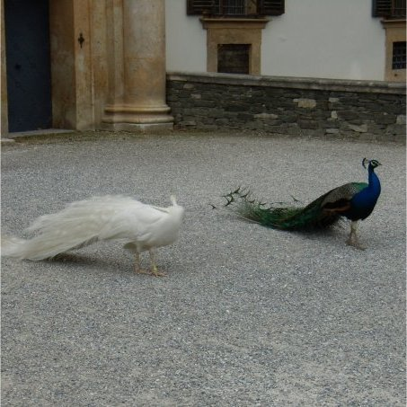 Two of the peacocks on the bridge to the Eggenberg Palace entry portal.